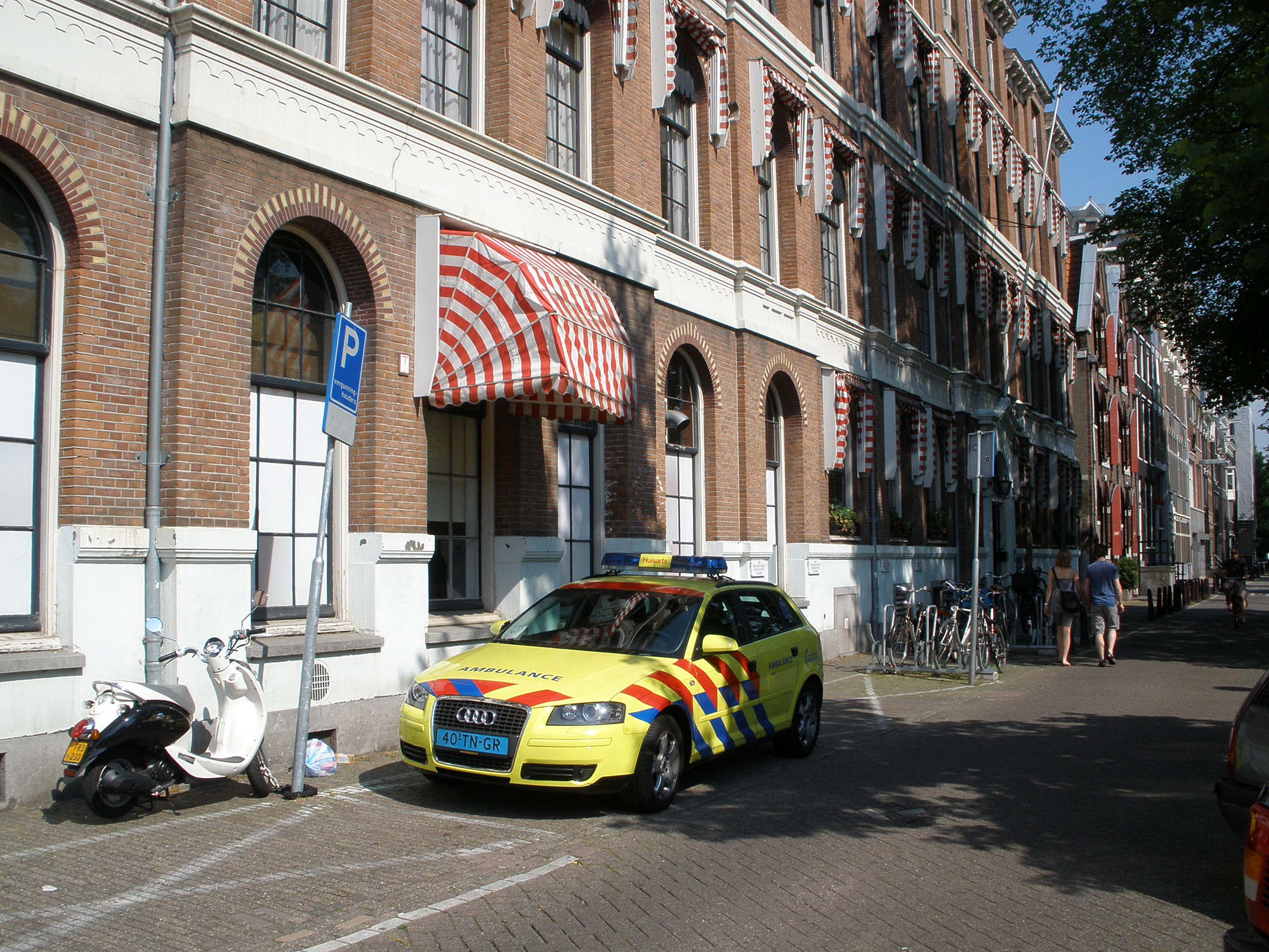 The Prinsengrachtziekenhuis, a former hospital on the Prinsengracht canal in Amsterdam